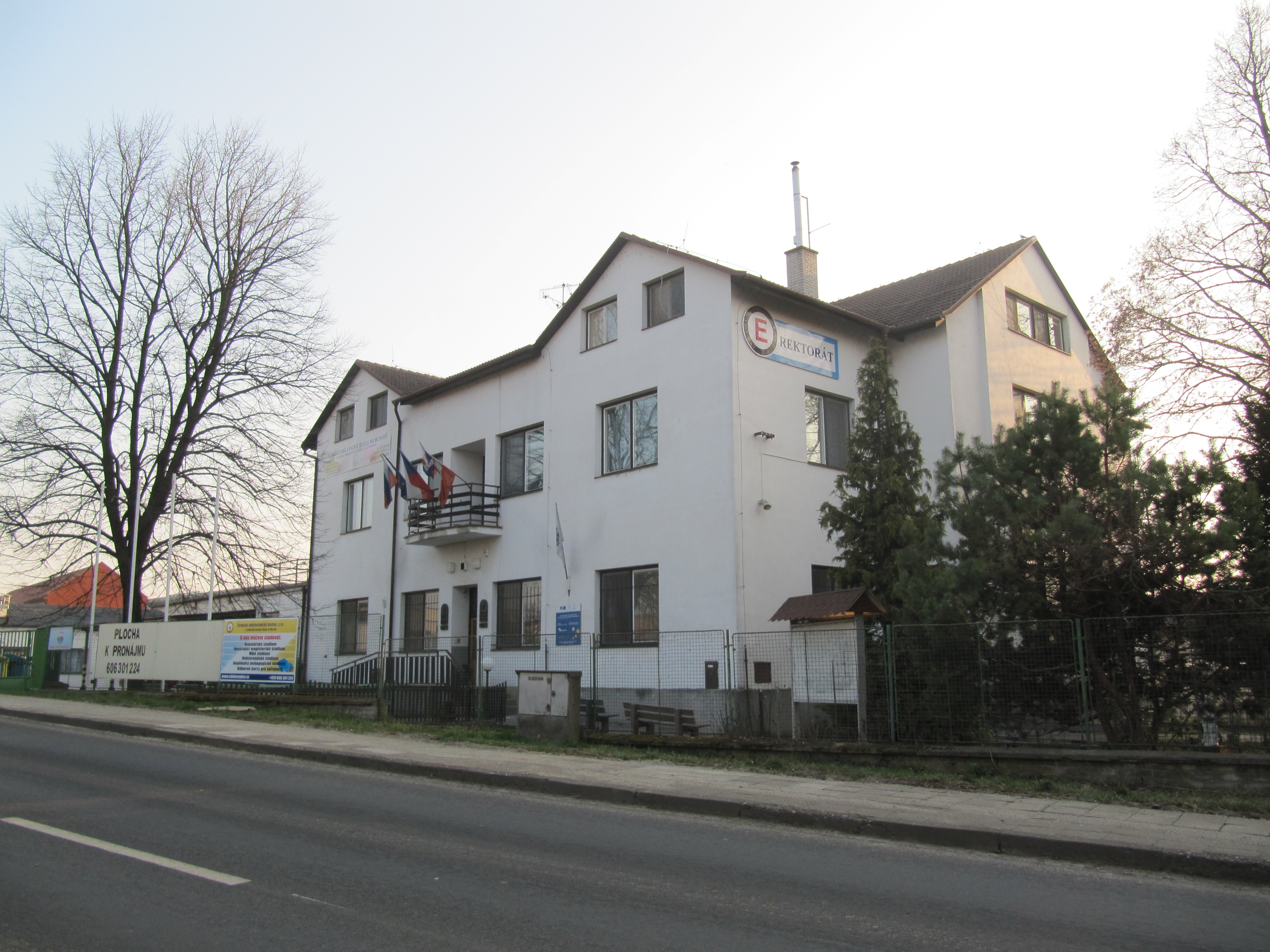 Kunovice in Uherské Hradiště District, Czech Republic.